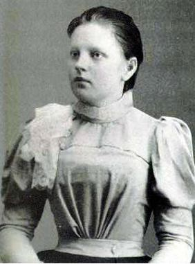 Anna Stepanovna Demidova, Lady in Waiting for Tsarina Alexandra of Russia